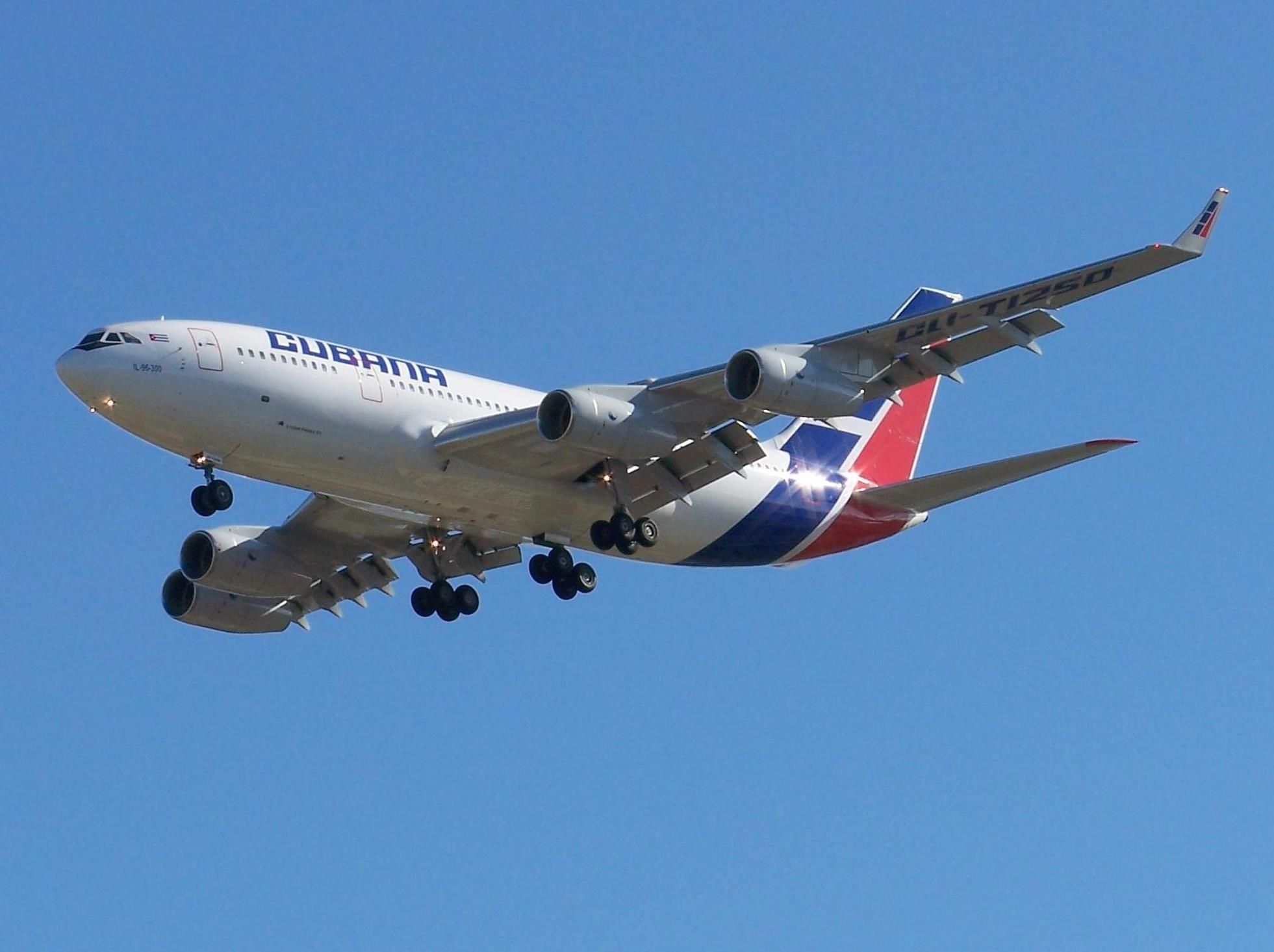 CU-T1250 - CUB470 HAV- MAD33L 9.2.07 11.50h - Ilyushin Il-96-300, cn 74393202015, ff 26.7.05, Cubana dd 30.12.05 - in serv 24.11.18